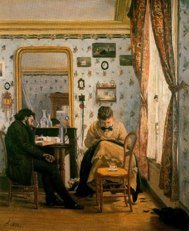 "L'étudiant'- 'The student' - by Puerto Rican impressionist painter Francisco Oller.